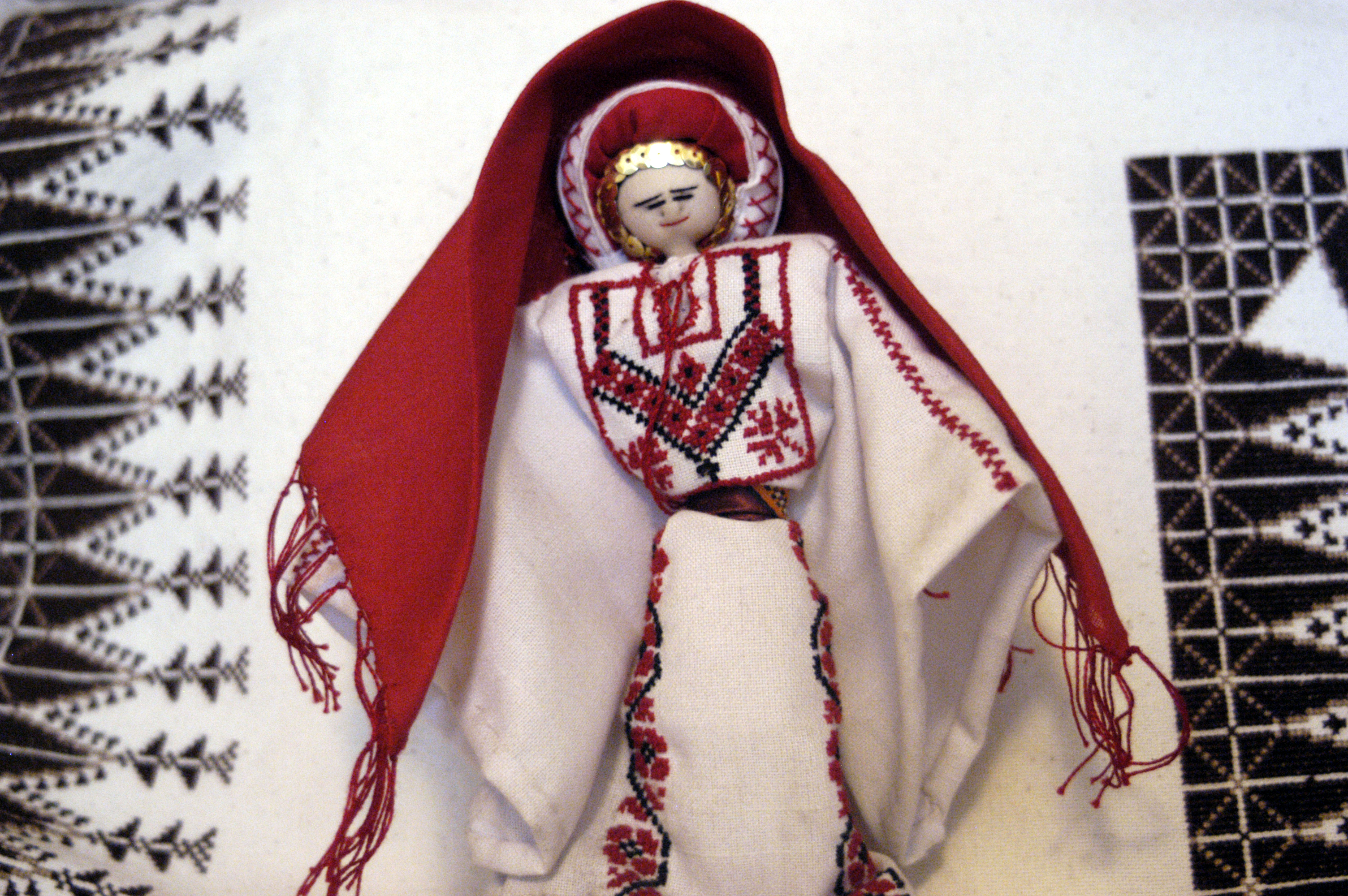 Doll in Ramallah style dress. Made by YWCA Jalazon RC project circa 2000.